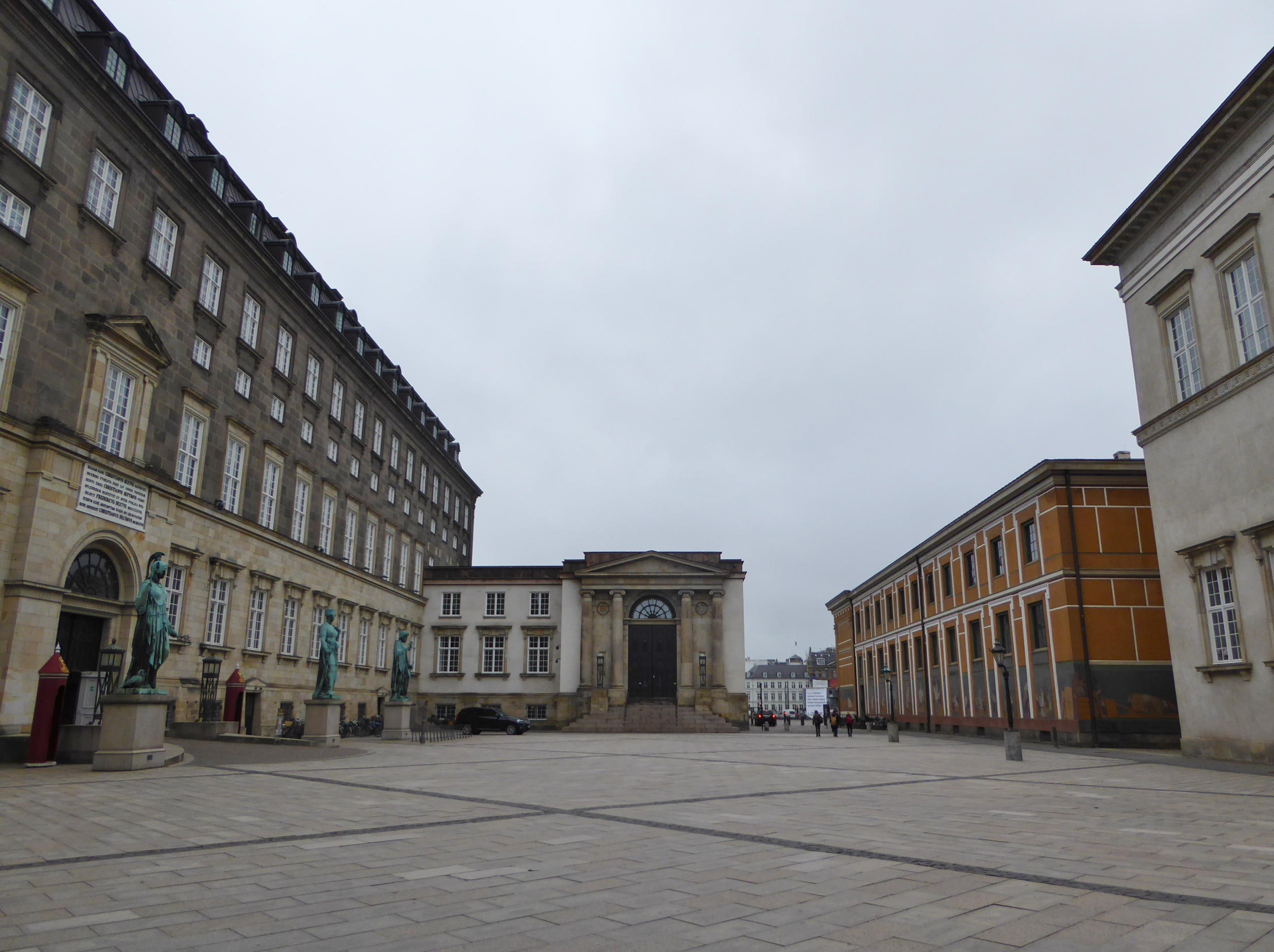 The square Prins Jørgens Gård on Slotsholmen in Copenhagen. At the left Christiansborg Palace, in the middle Højesteret (the Supreme Court) and at the right Thorvaldsens Museum.